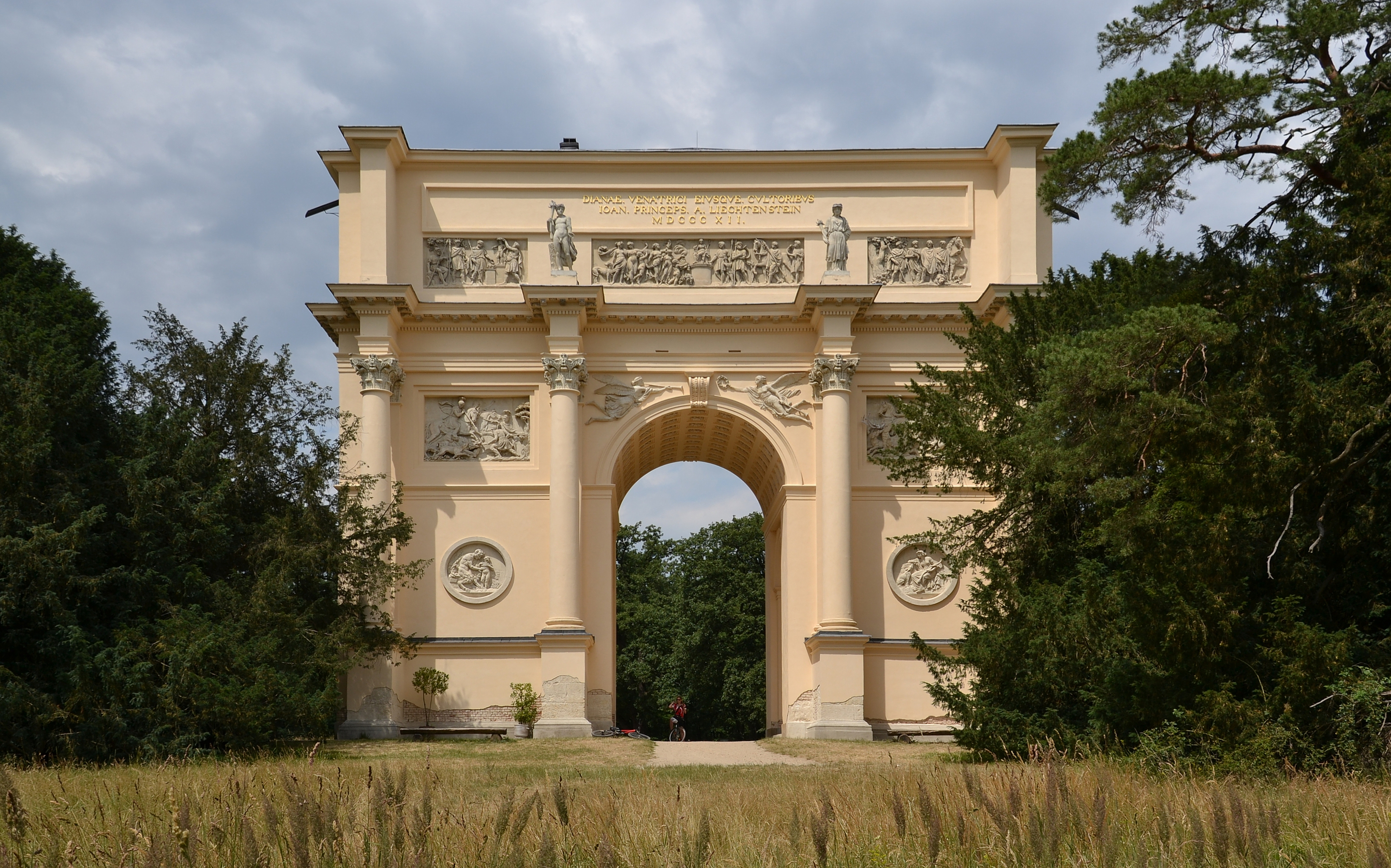 Temple of Diana, Lednice (Feldsberg)